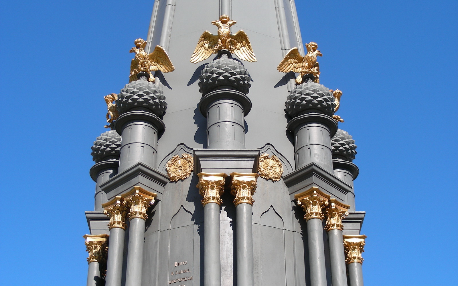 BELARUS / POLOTSK. Monument of War 1812. Details.